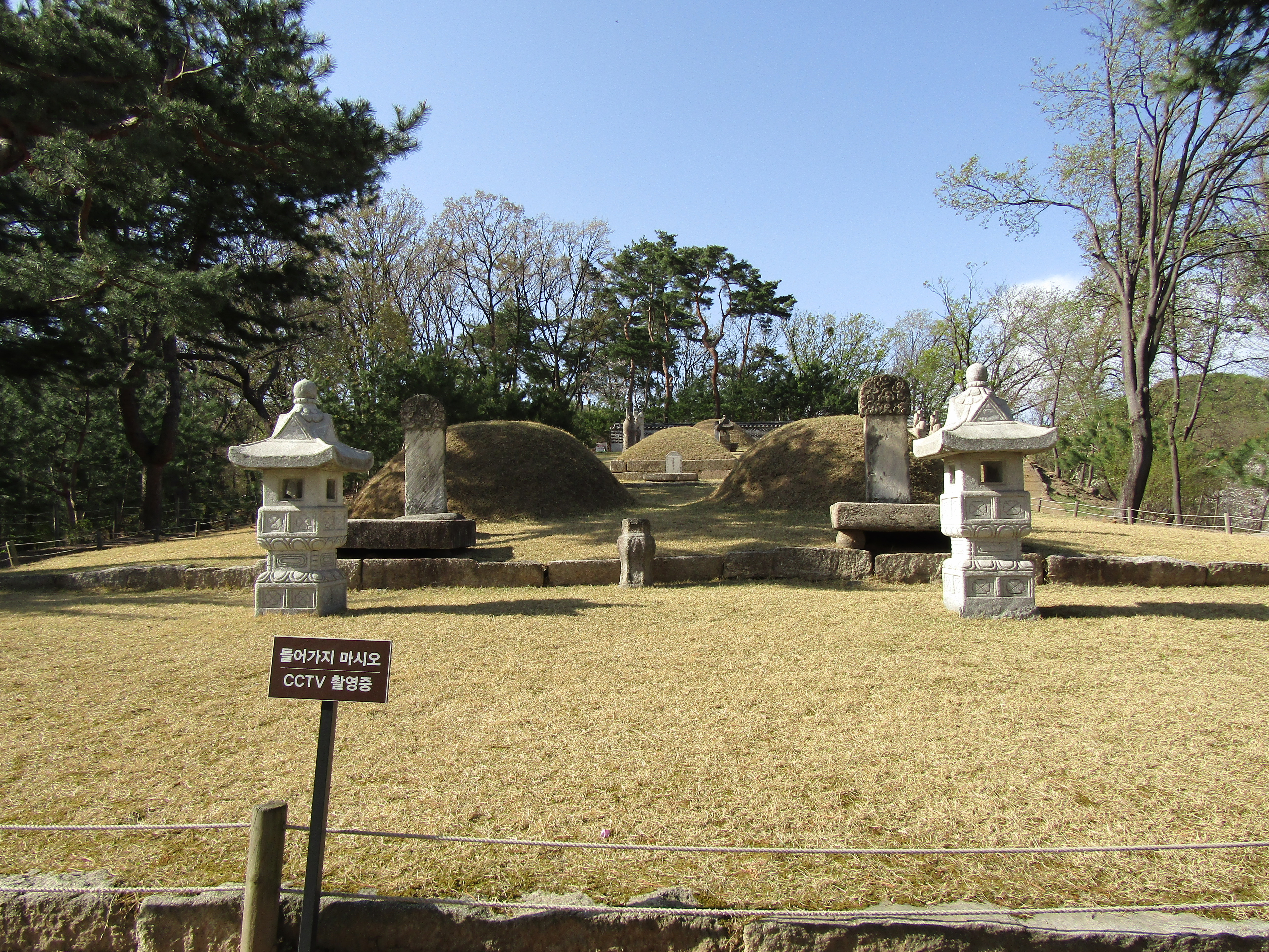 The royal tombs of Yeonsangun of Joseon.